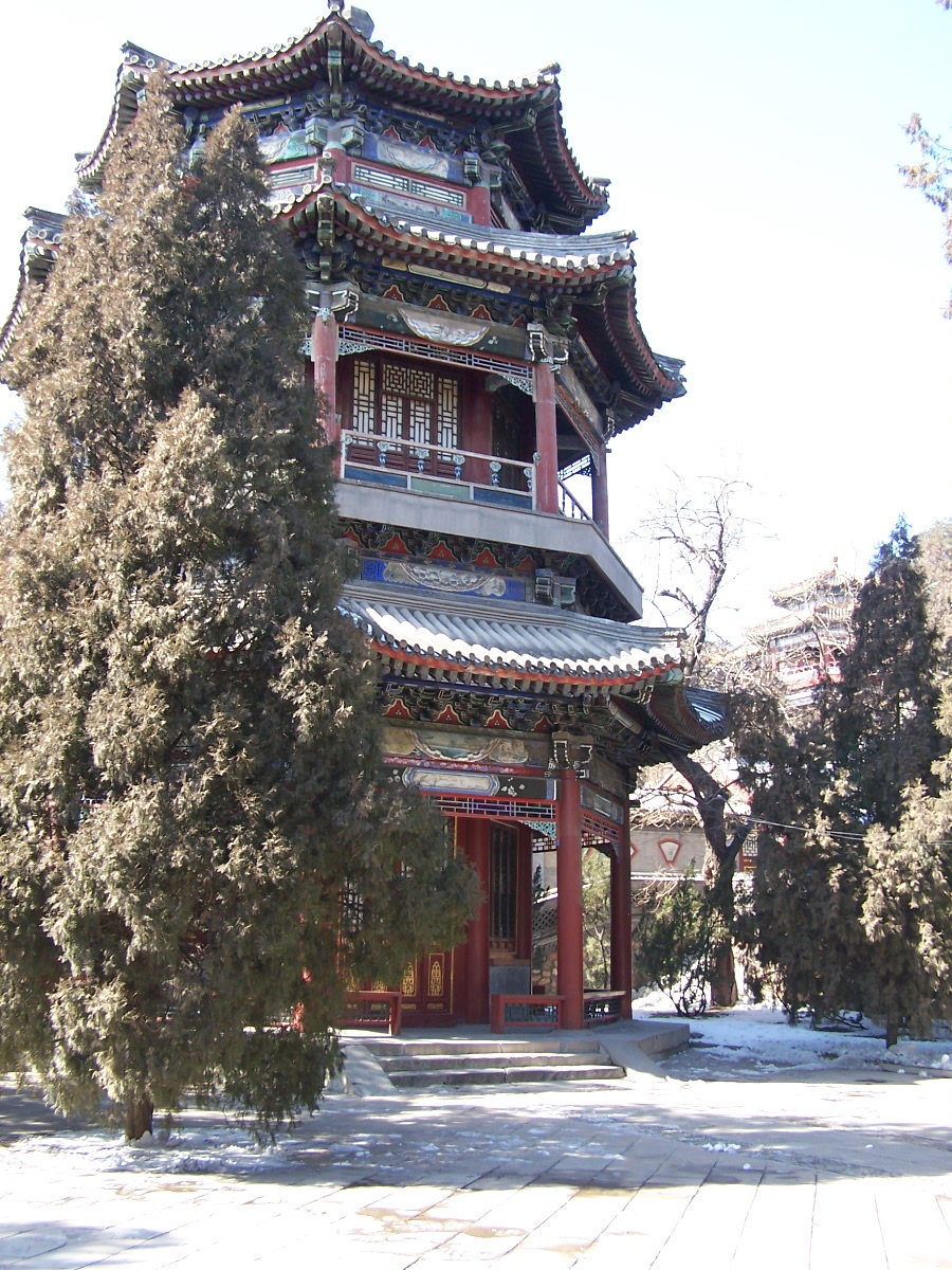 Summer Palace at Beijing, China